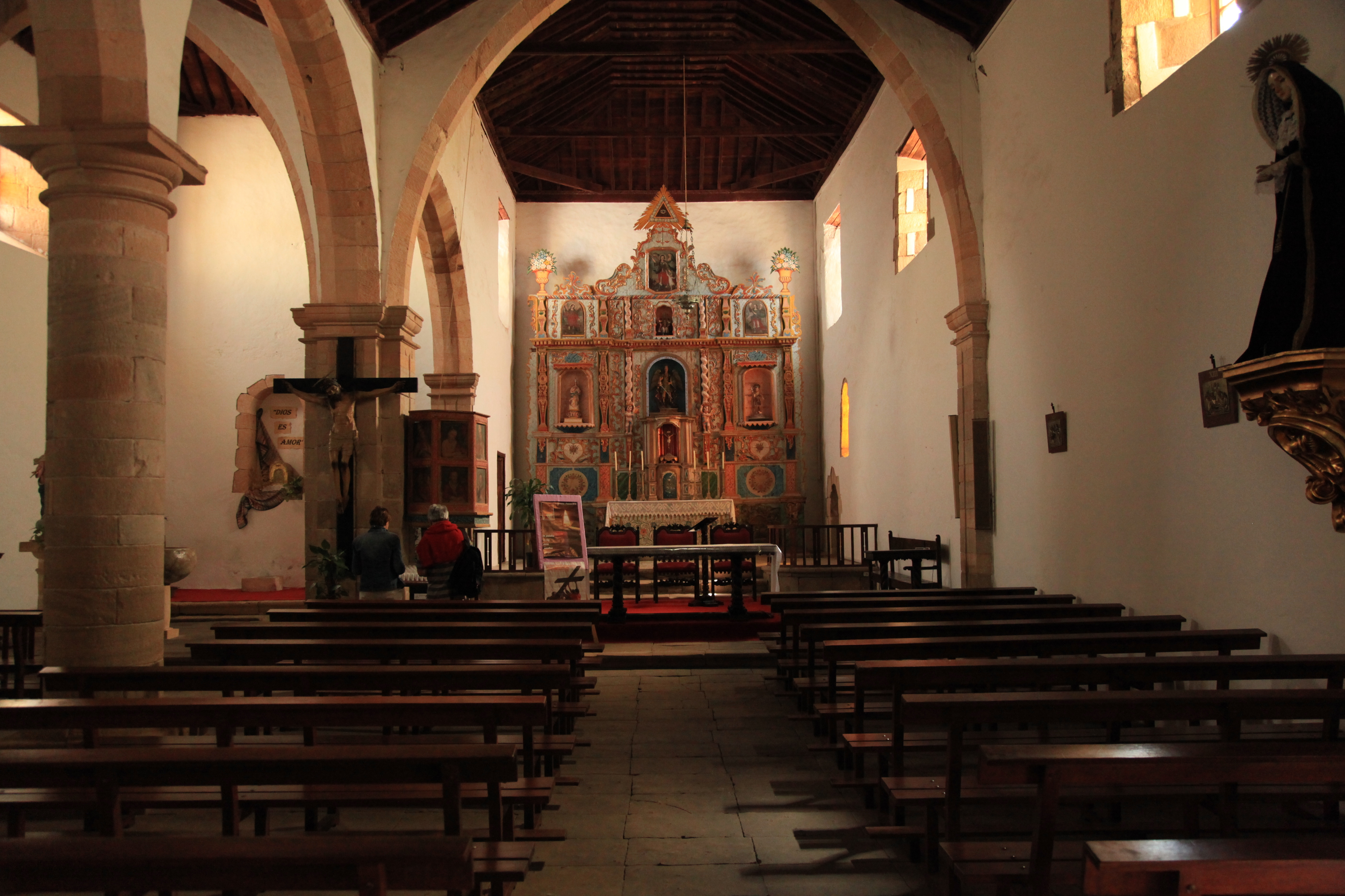 Iglesia de San Miguel Arcángel at Paseo de la Libertad in Tuineje village, Tuineje, Fuerteventura, Canary Islands